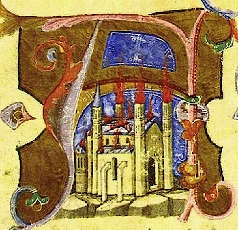 This is a picture in Képes Krónika.